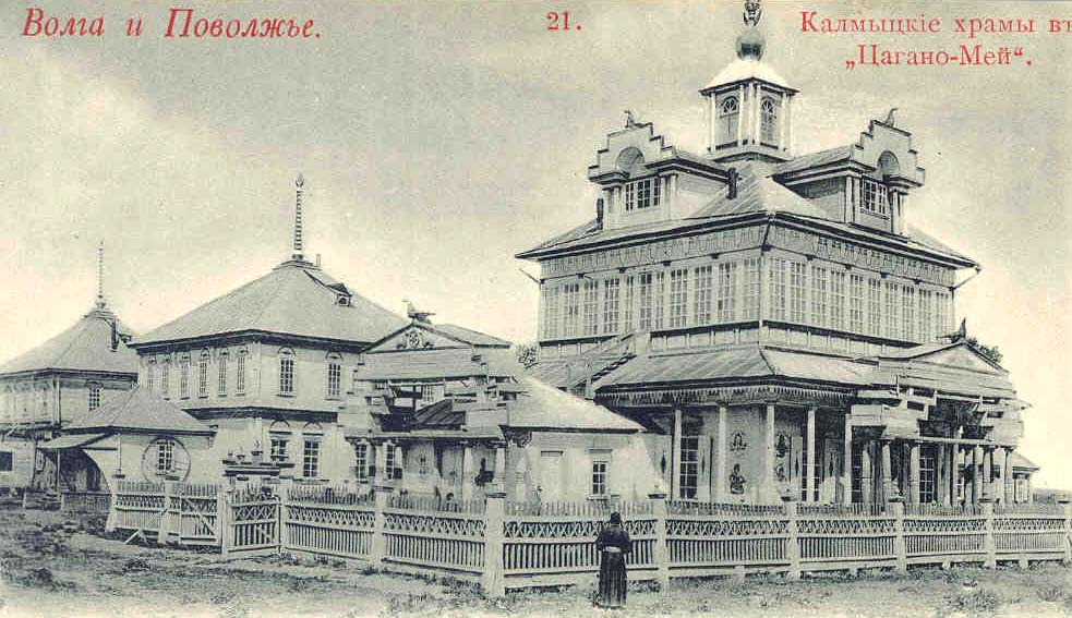 This is a photo of the Kalmyk khurul, or community hall, at the Tsagan Aman settlement in the Astrakhan region. The wood-based, architectural design of this khurul was strongly influenced by rural Russian church architecture. This khurul was destroyed by the Bolsheviks and was only recently replaced several years ago. A picture of the new Buddhist khurul can be found at [1]. pre-1917 image